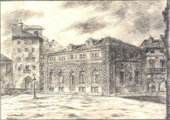 Teatro San Giacomo in Corfu in its initial form.